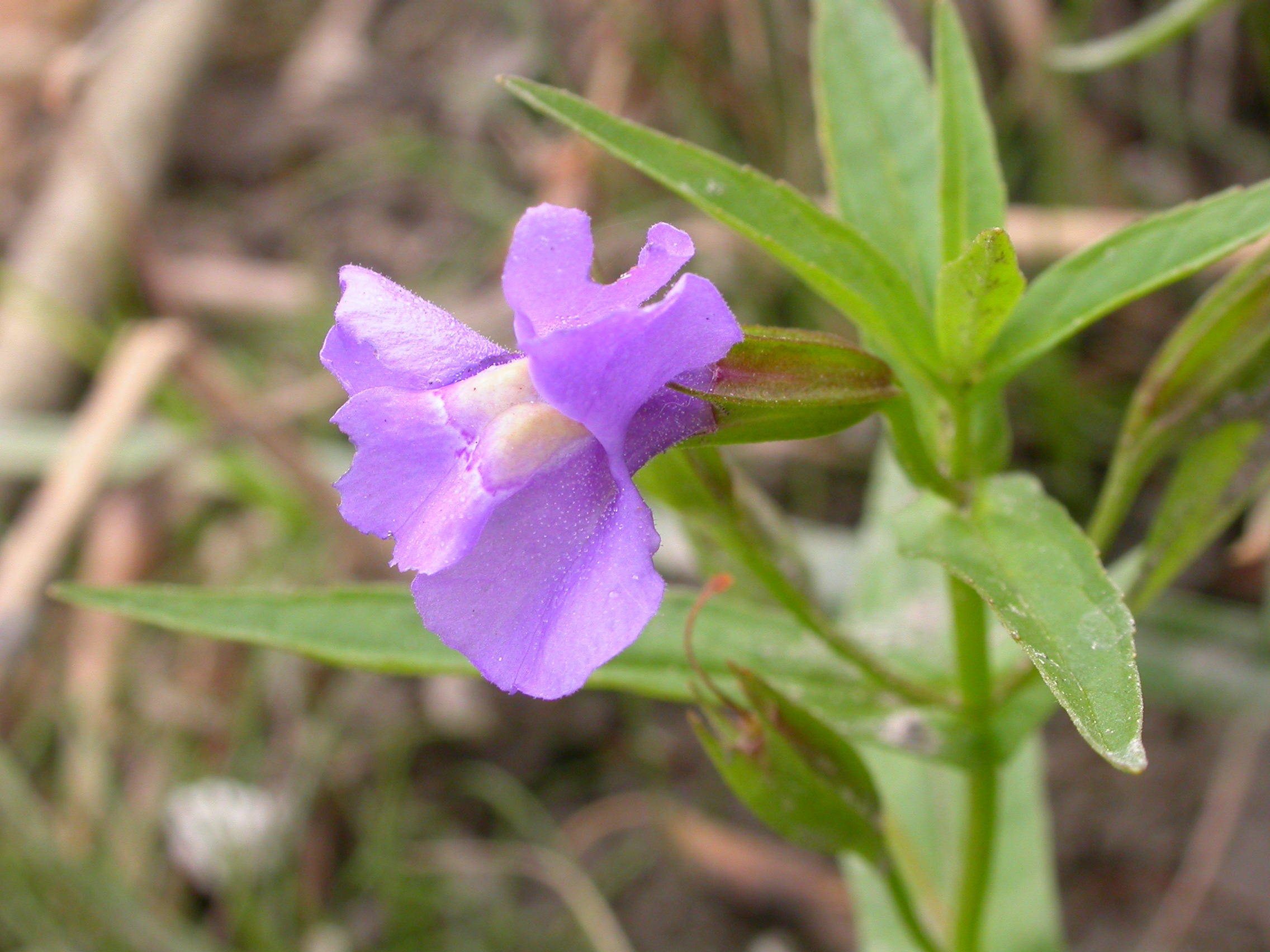 A population of a few scattered individuals was found growing among Phalaris canariensis right along the banks of the Missouri River.